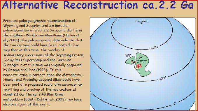 This shows a possible configuration for the initial attachment of the Wyoming and Superior provinces.